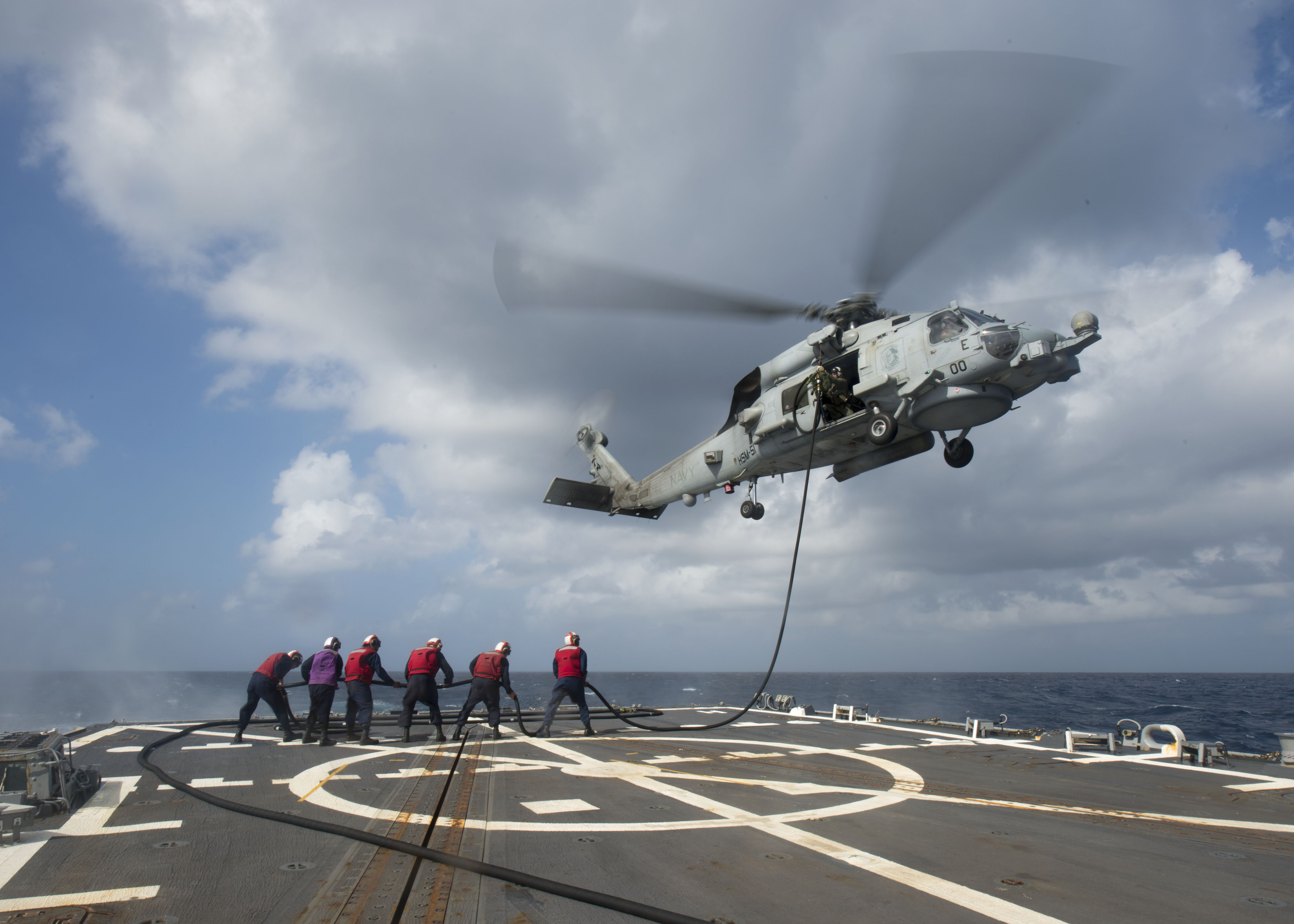 SOUTH CHINA SEA (Oct. 20, 2013) Sailors refuel an MH-60R Sea Hawk helicopter from the Warlords of Helicopter Maritime Strike Squadron (HSM) 51 aboard the Arleigh Burke-class guided-missile destroyer USS Mustin (DDG 89). Mustin is on patrol with the George Washington Carrier Strike Group in the U.S. 7th fleet area of responsibility supporting security and stability in the Indo-Asia-Pacific region. (U.S. Navy photo by Mass Communication Specialist 3rd Class Mackenzie P. Adams/Released) 131020-N-CG241-146 Join the conversation navylive.dodlive.mil